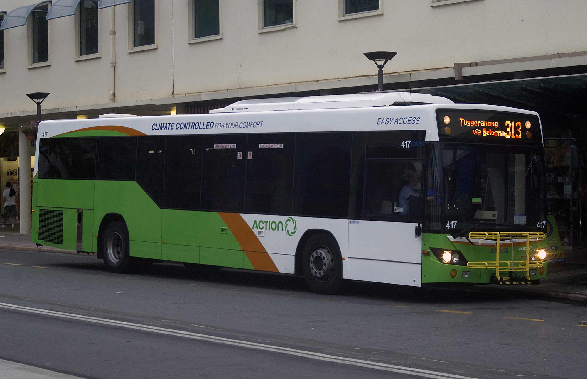 Custom Coaches 'CB60 Evo II' bodied MAN 18.320 (Euro V) in ACTION livery operating route 313 at the City Interchange.